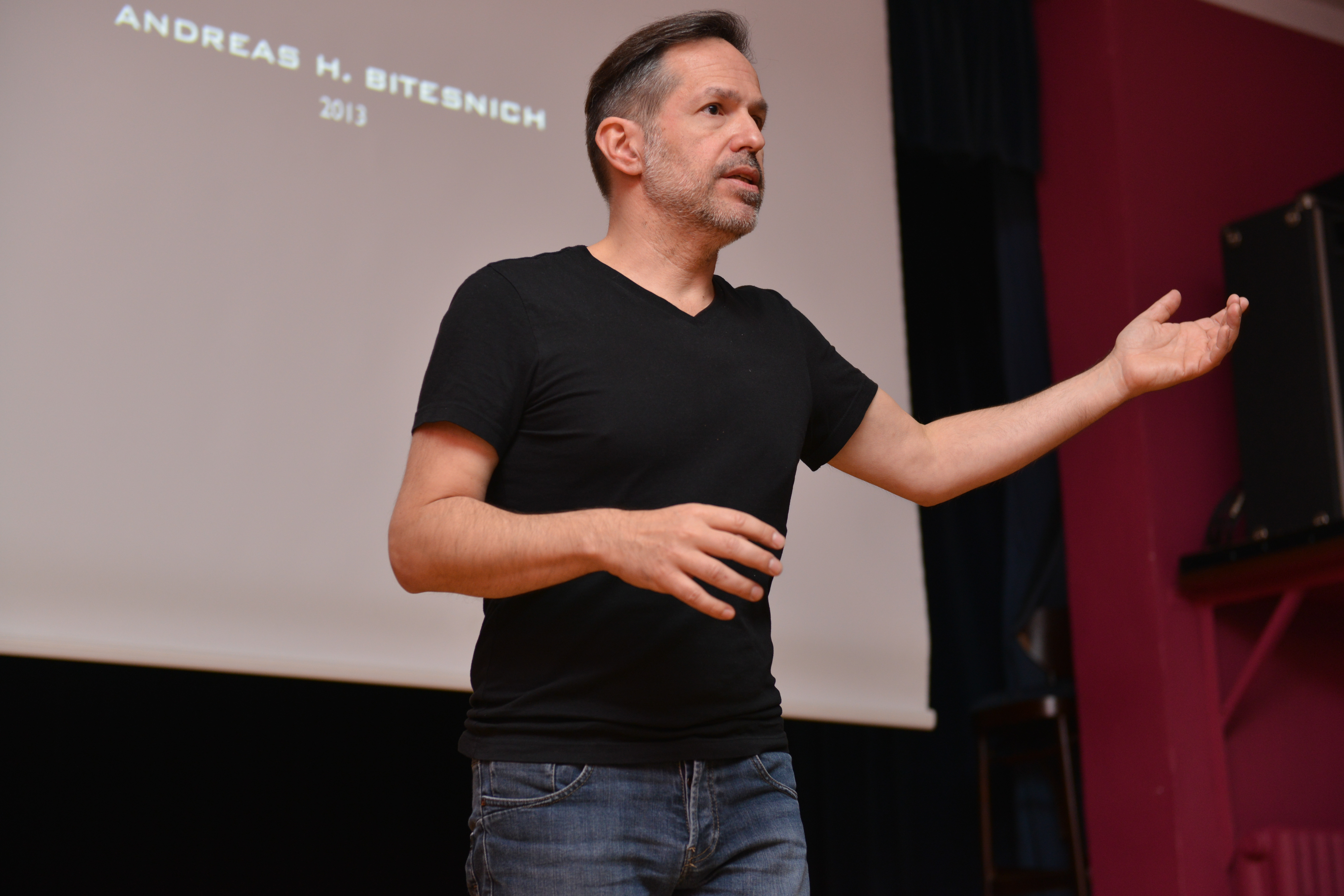 Andreas Bitesnich Austrian photographer during FotoArtFestival 2013